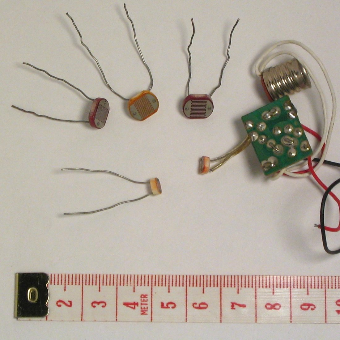 Photoresistors. On the right, part of of a night light that used a photoresistor to turn on a light in the dark.